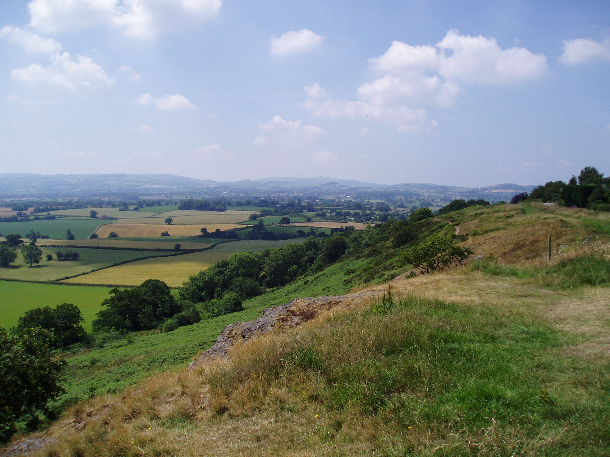 Taken from Lyth Hill, near Bayston Hill, Shropshire. Photograph taken by David Jones. Category:Images of England